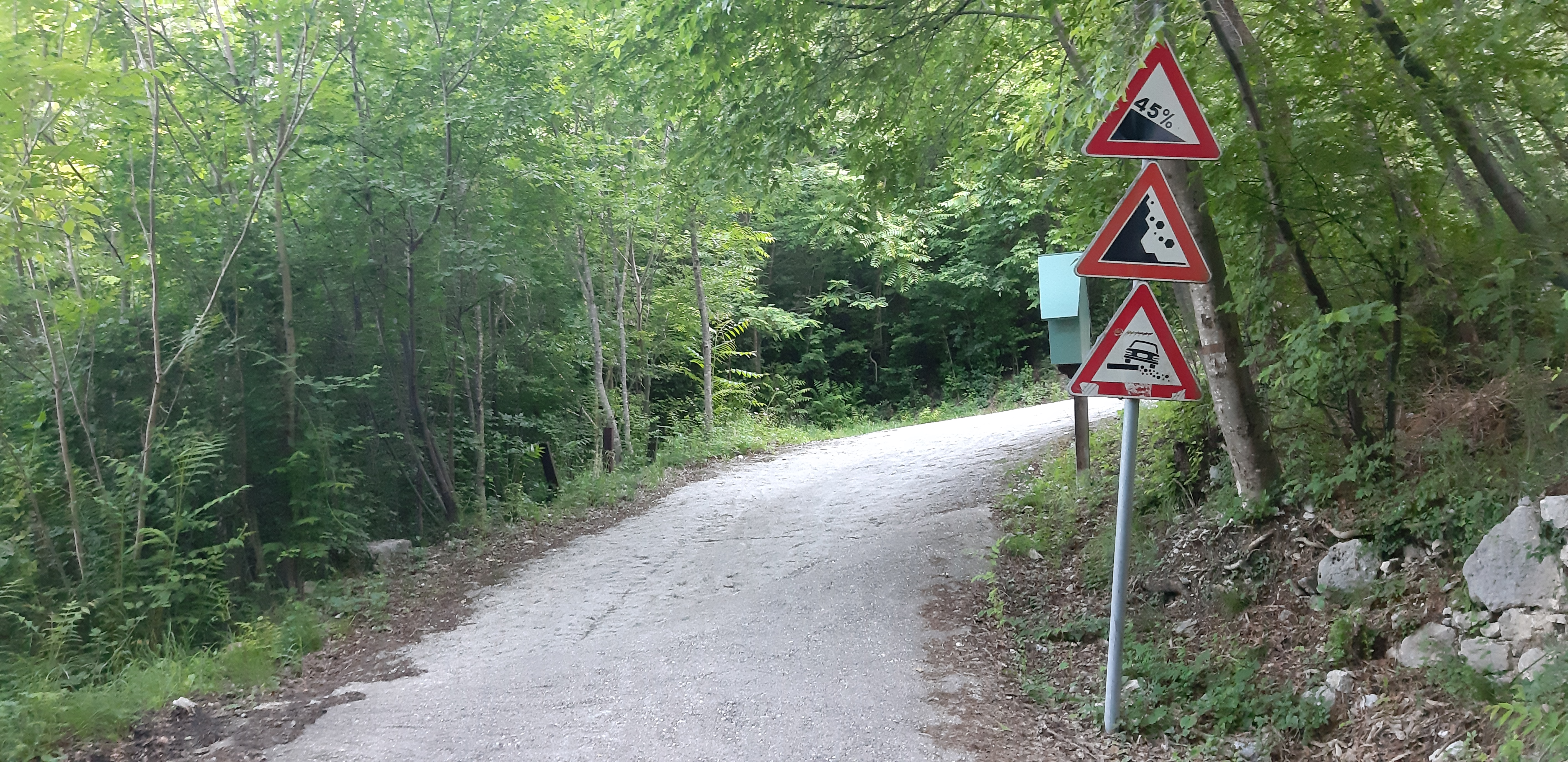 Scanuppia - Malga Palazzo climb